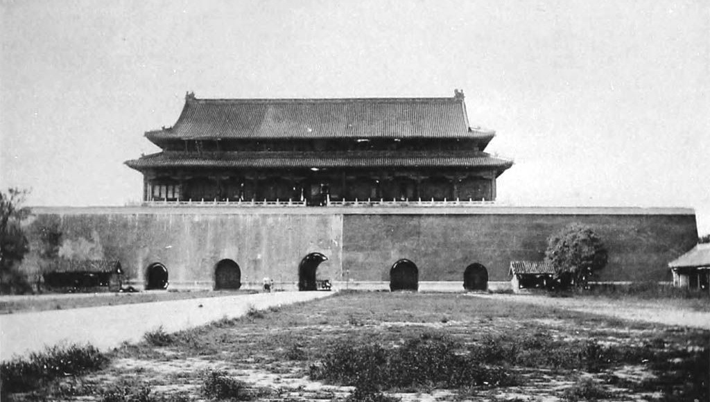 (view N) Gate of Uprightness )